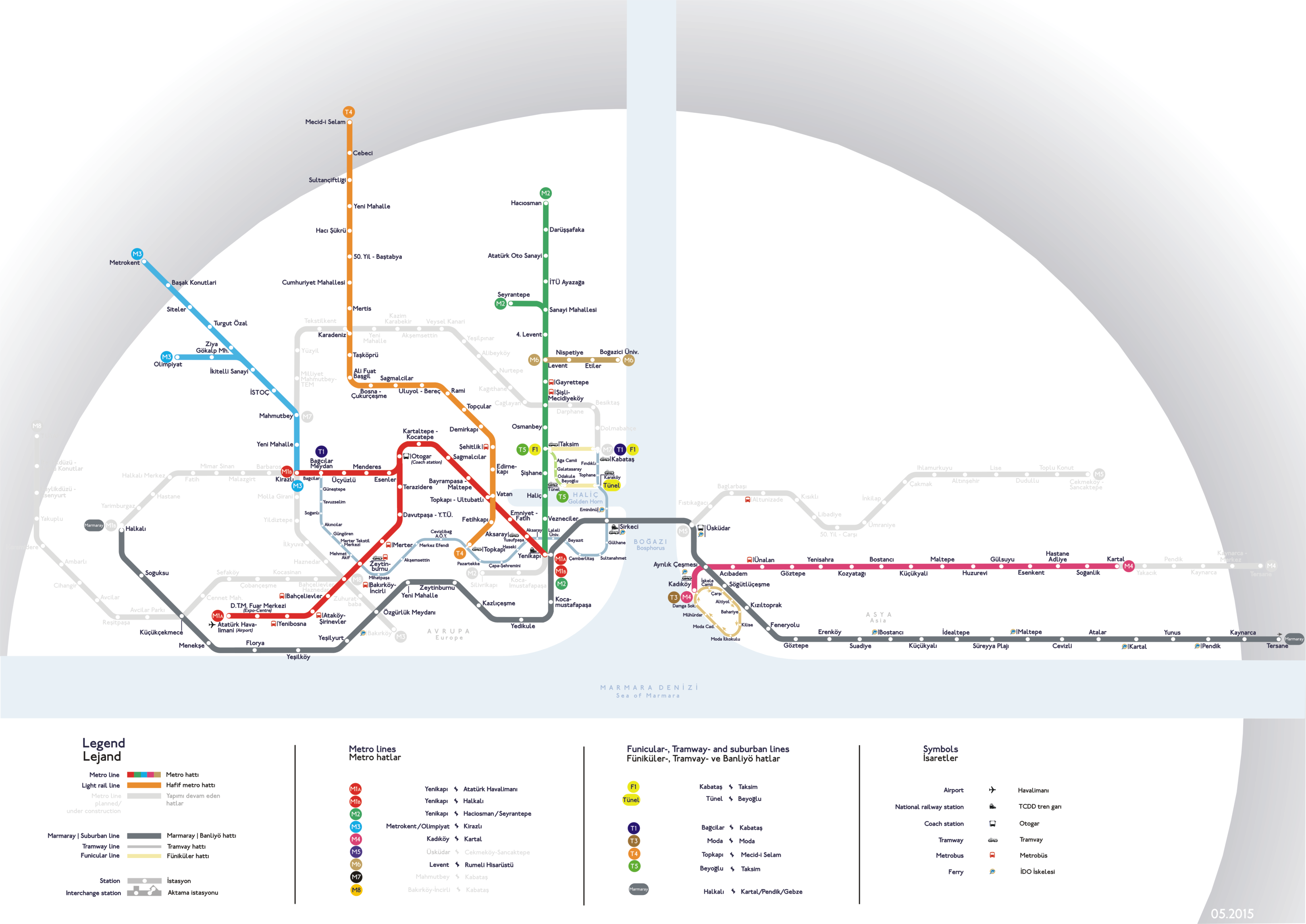 Metro Map Istanbul Istanbul Metro Network